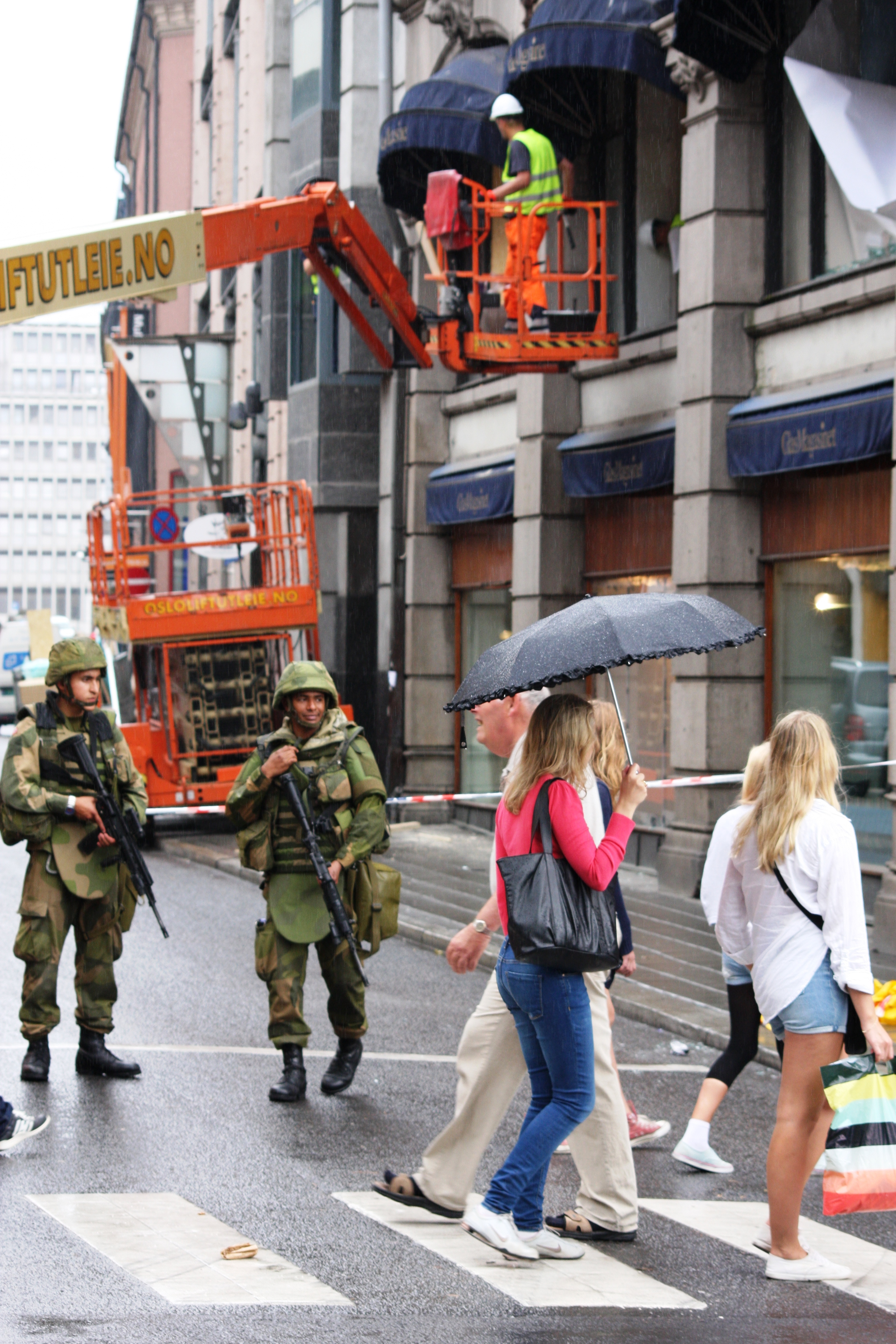 The day after in Oslo. National guardsmen control the inner center, windows are replaced in Glasmagasinet, citizens watch by.